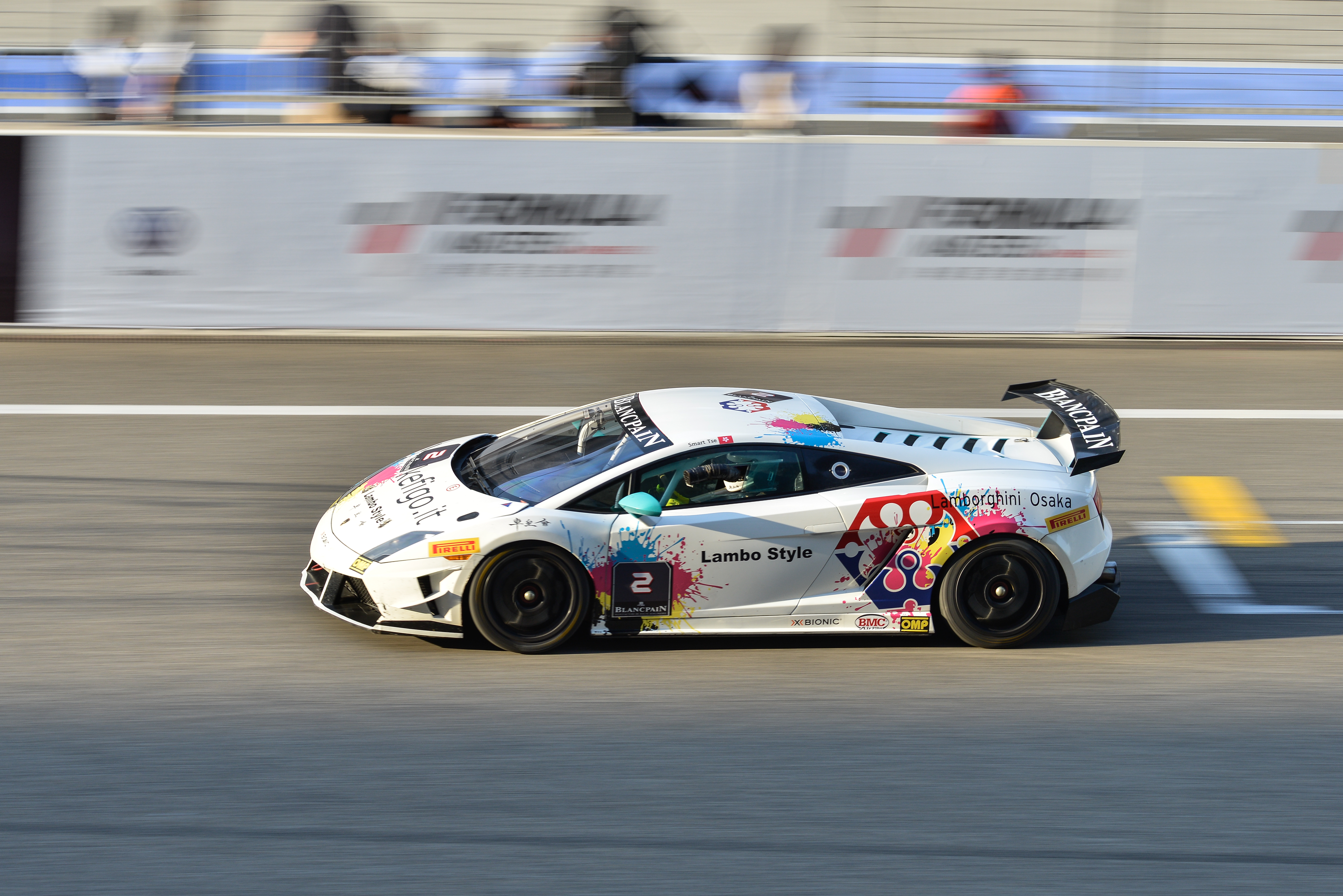 Lamborghini Super Trofeo at 2014 Sports Car Champions Festival